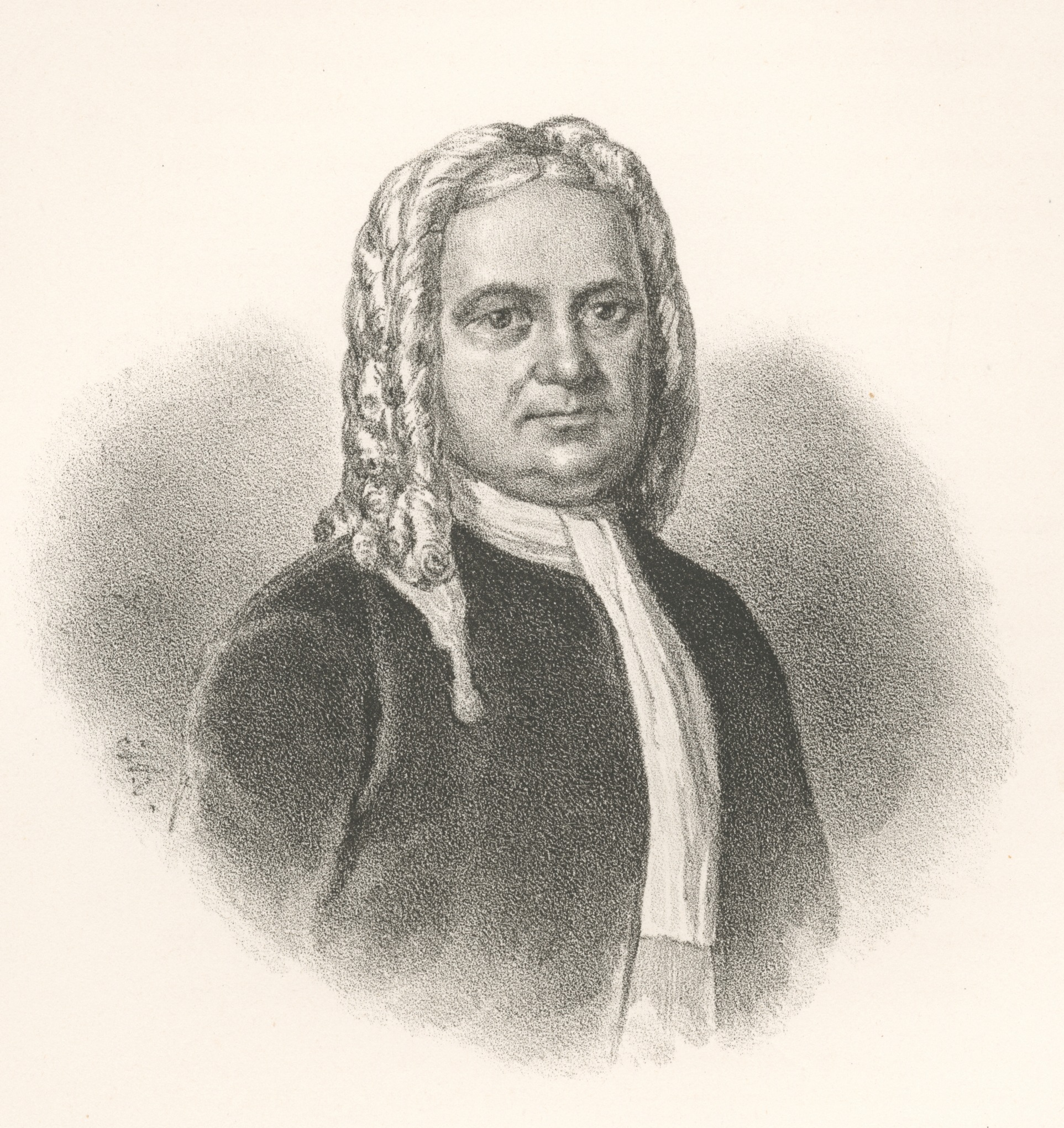 Printmakers include Jacques Gautier Dagoty, Carl Guttenberg, Henry Bryan Hall, Albert Rosenthal, Max Rosenthal & Samuel Sartain. Draughtsmen include David McNeely Stauffer. Title from Calendar of Emmet Collection. Includes photomechanical reproductions. EM9858 Statement of responsibility : MR